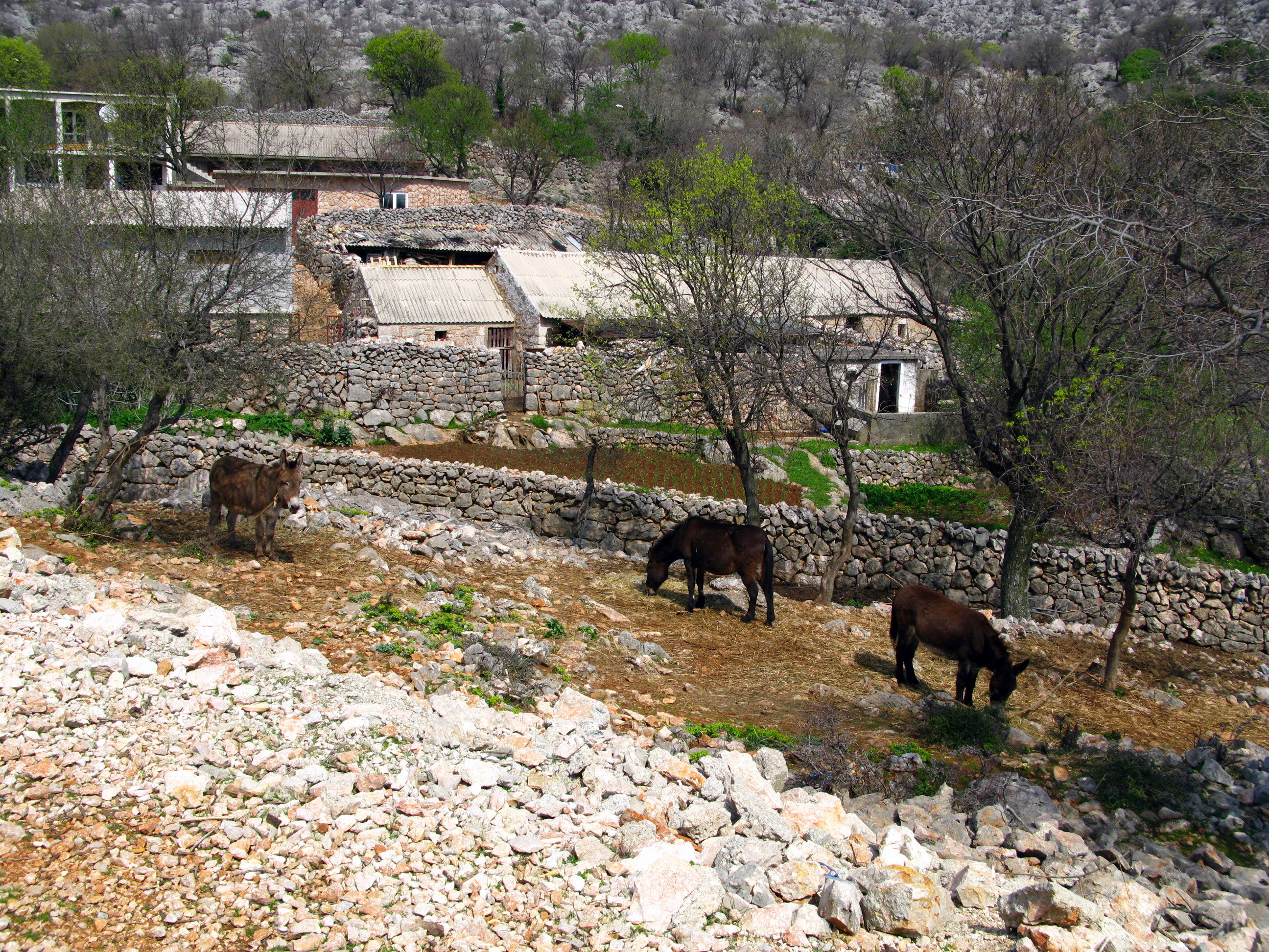 Donkeys in the Karst of Ljubotič , a village above Tribanj Kruščica at the Adriatic Highway near Starigrad in the Velebit mountain range in Croatia / Balkans / southeastern Europe.